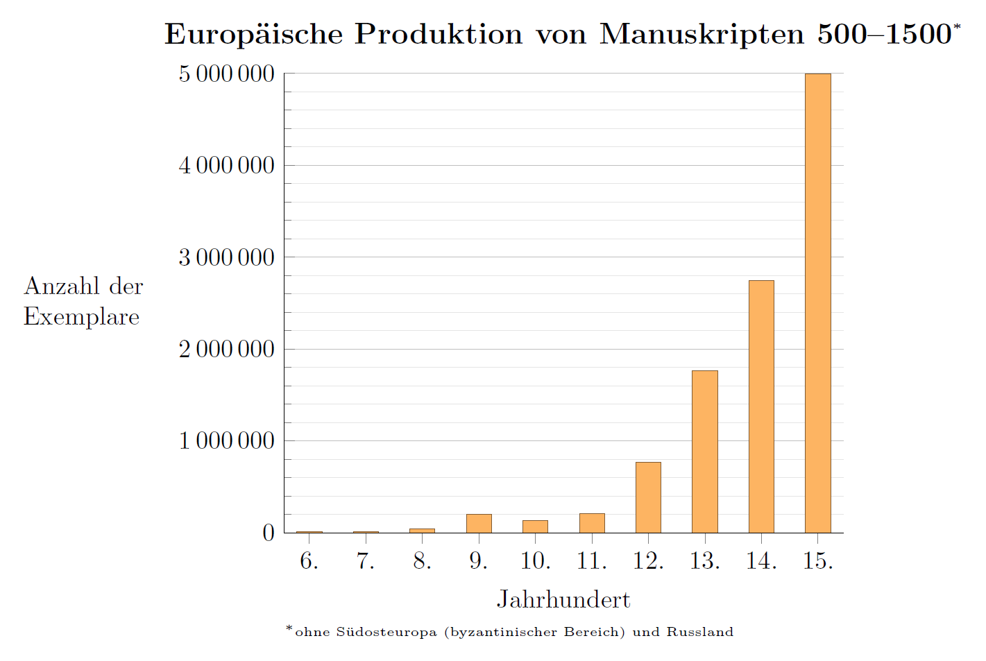 Estimated European output of manuscripts from 500 to 1500. Not included are individual deeds and charters.